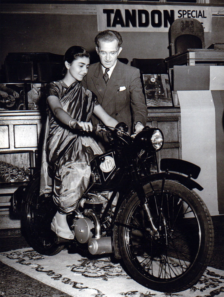 Tandon Milemaster manufactured in Watford, UK, designed for export to India.